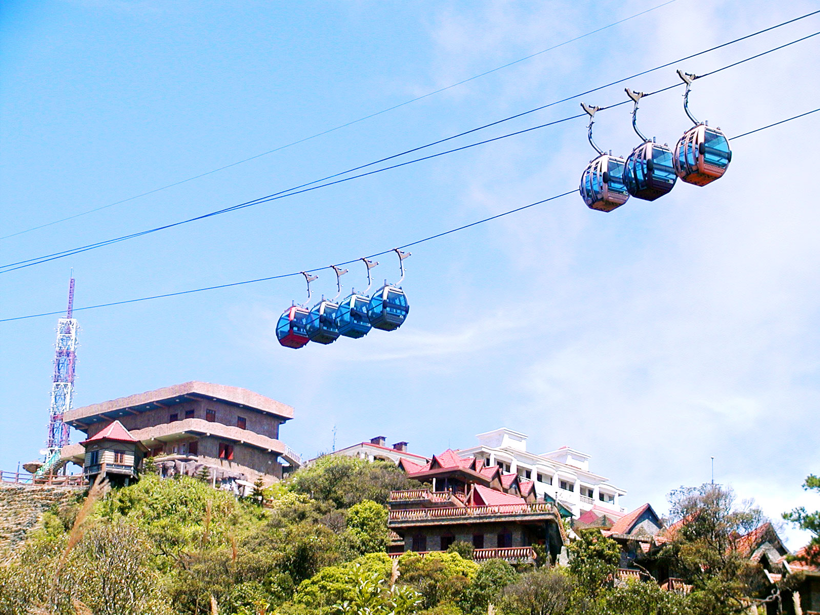 Ba Na ecological Resort, Da Nang, Vietnam